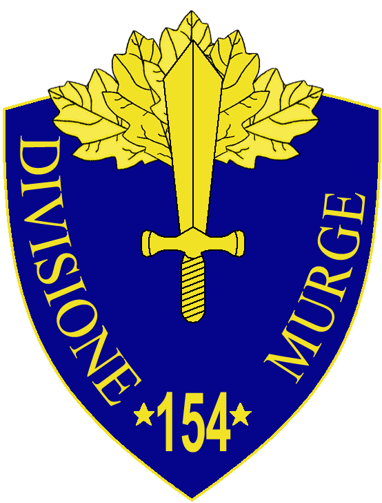 154a Divisione Fanteria Murge insignia, Regio Esercito, Italy, WWII